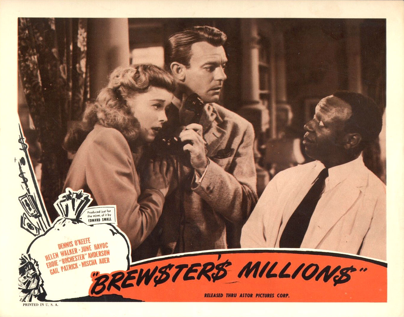 Lobby card for the film Brewster's Millions (1945).